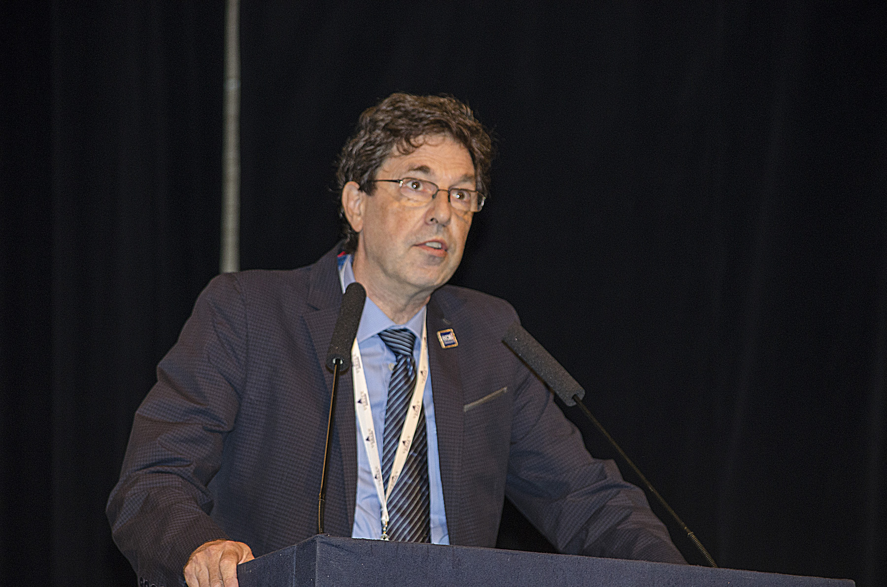 Thomas Lengauer at ISMB ECCB 2017